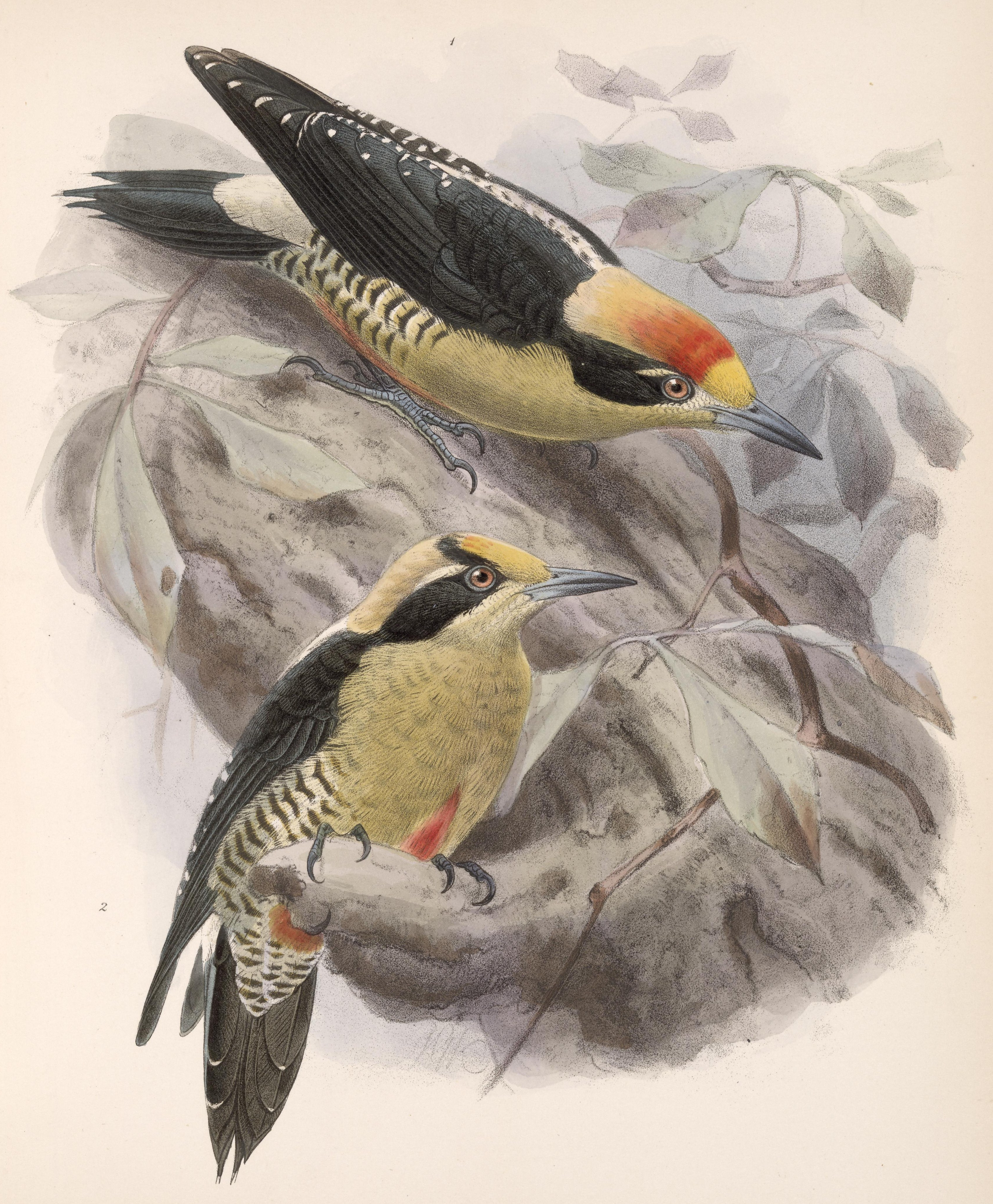 « Melanerpes chrysauchen » = Melanerpes chrysauchen (Golden-naped Woodpecker) - male and female